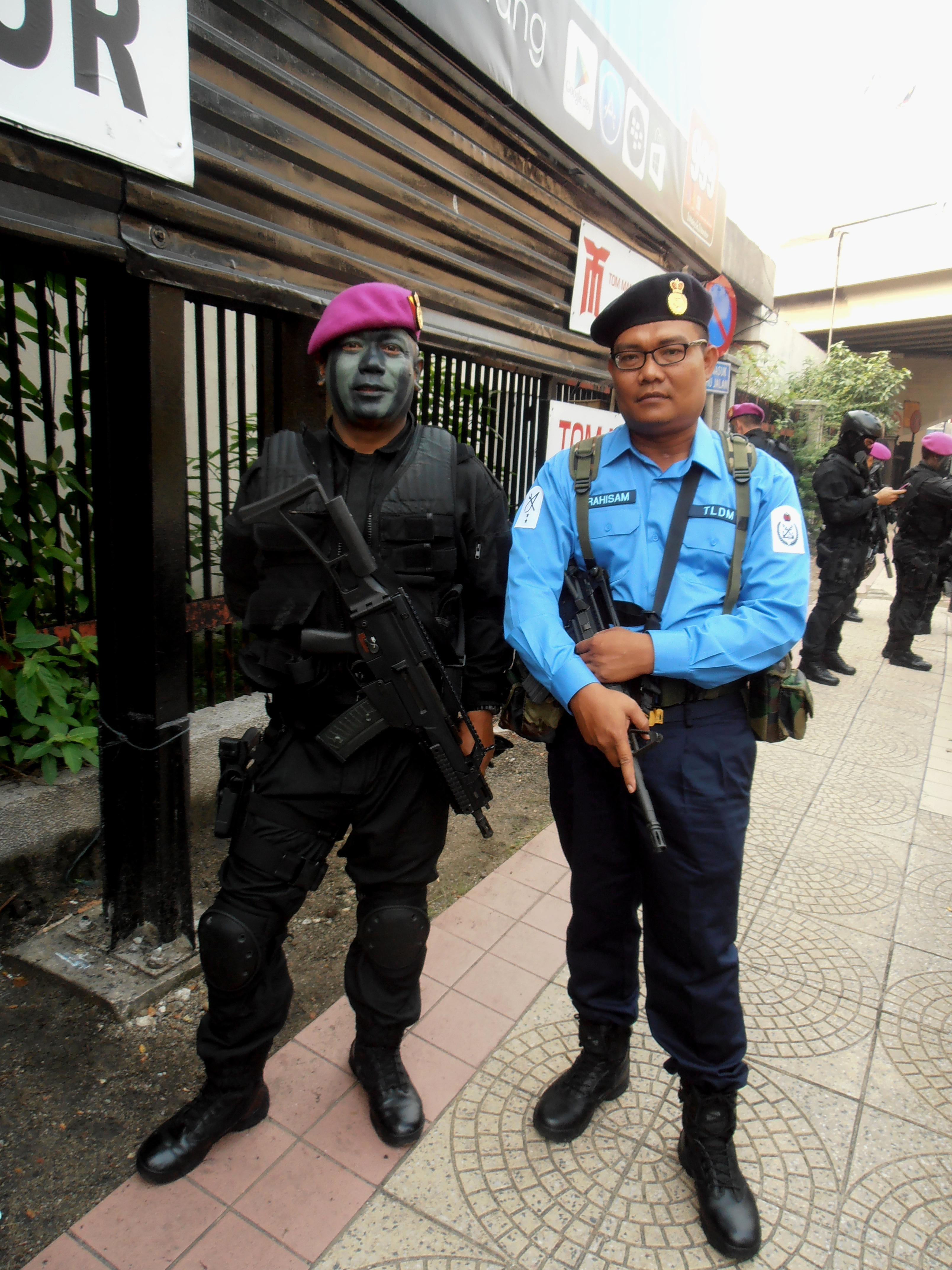 The facepainting PASKAL commando in tactical gear with G36C and sailor of Royal Malaysian Navy holding with an M4 carbine during the 2015 Merdeka Day in Kuala Lumpur.